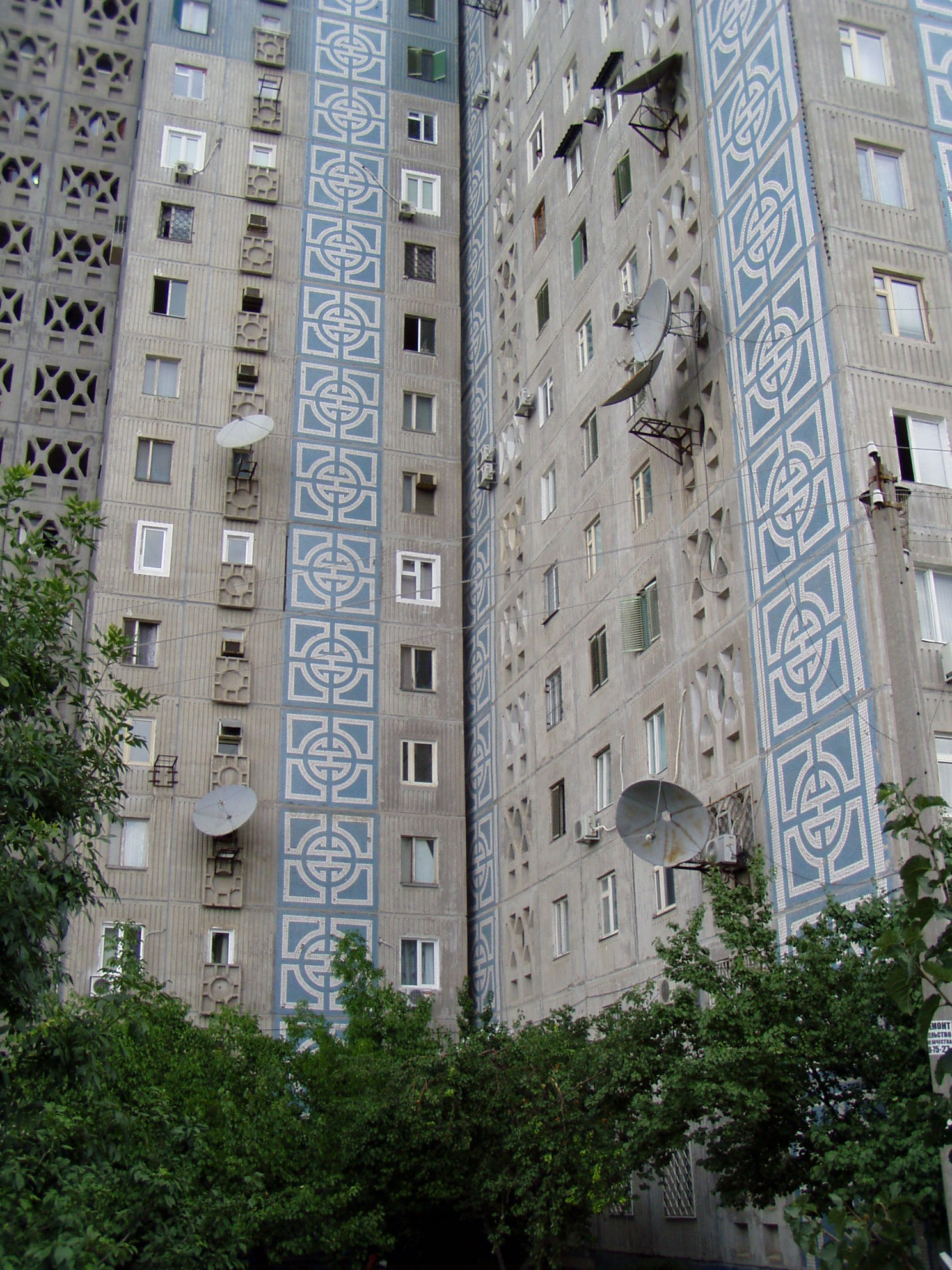 Apartment Houses in Tashkent, built in Soviet times